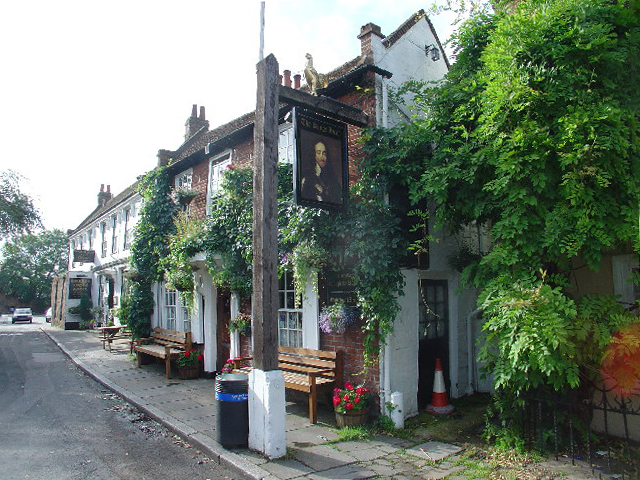 Church Square Shepperton. This square contains a Church and several pubs and houses in an old square near the Thames